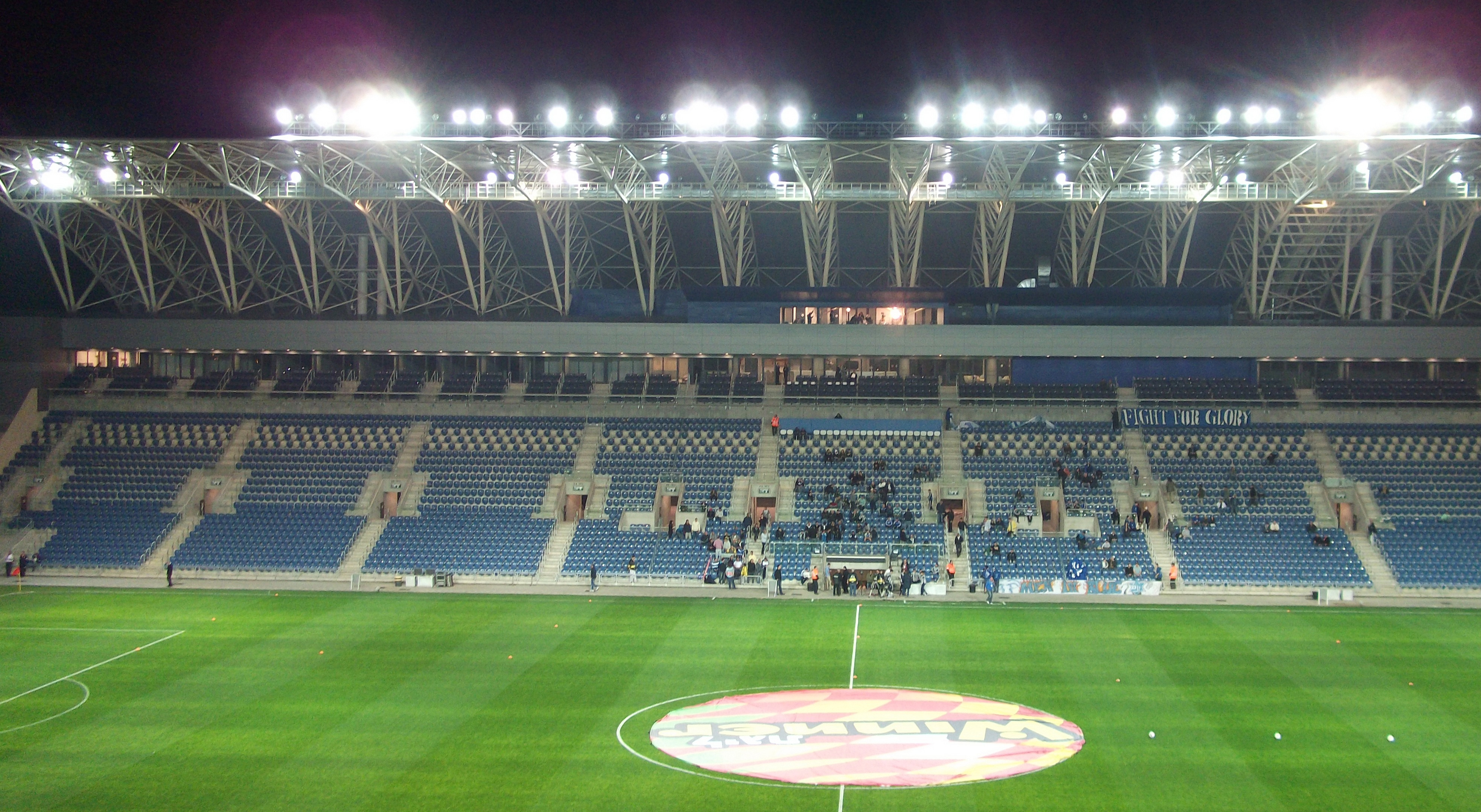 HaMoshava Stadium, Petach Tivka